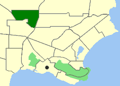 Map of the suburb of Milpara in Albany, Western Australia.